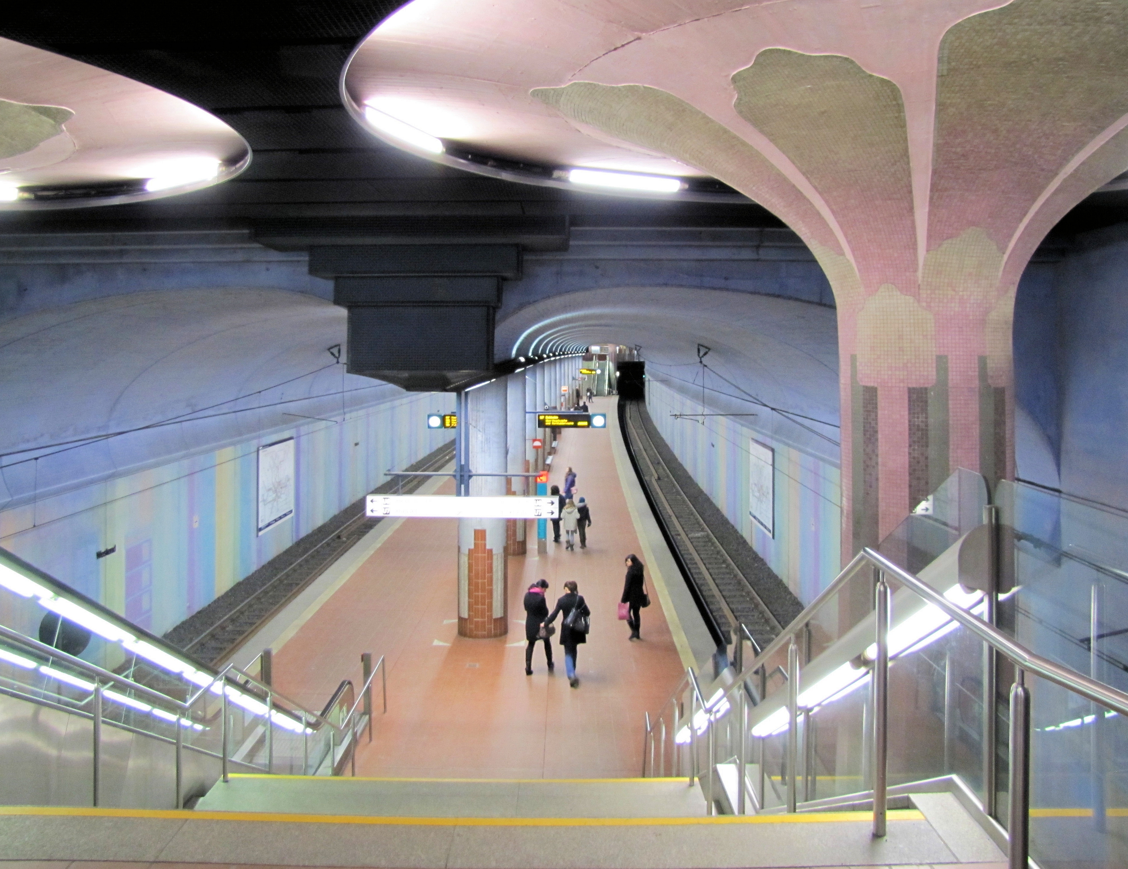 Underground station "Westend", of "U 6" + "U 7" (C-line), at Frankfurt-Westend, Germany.